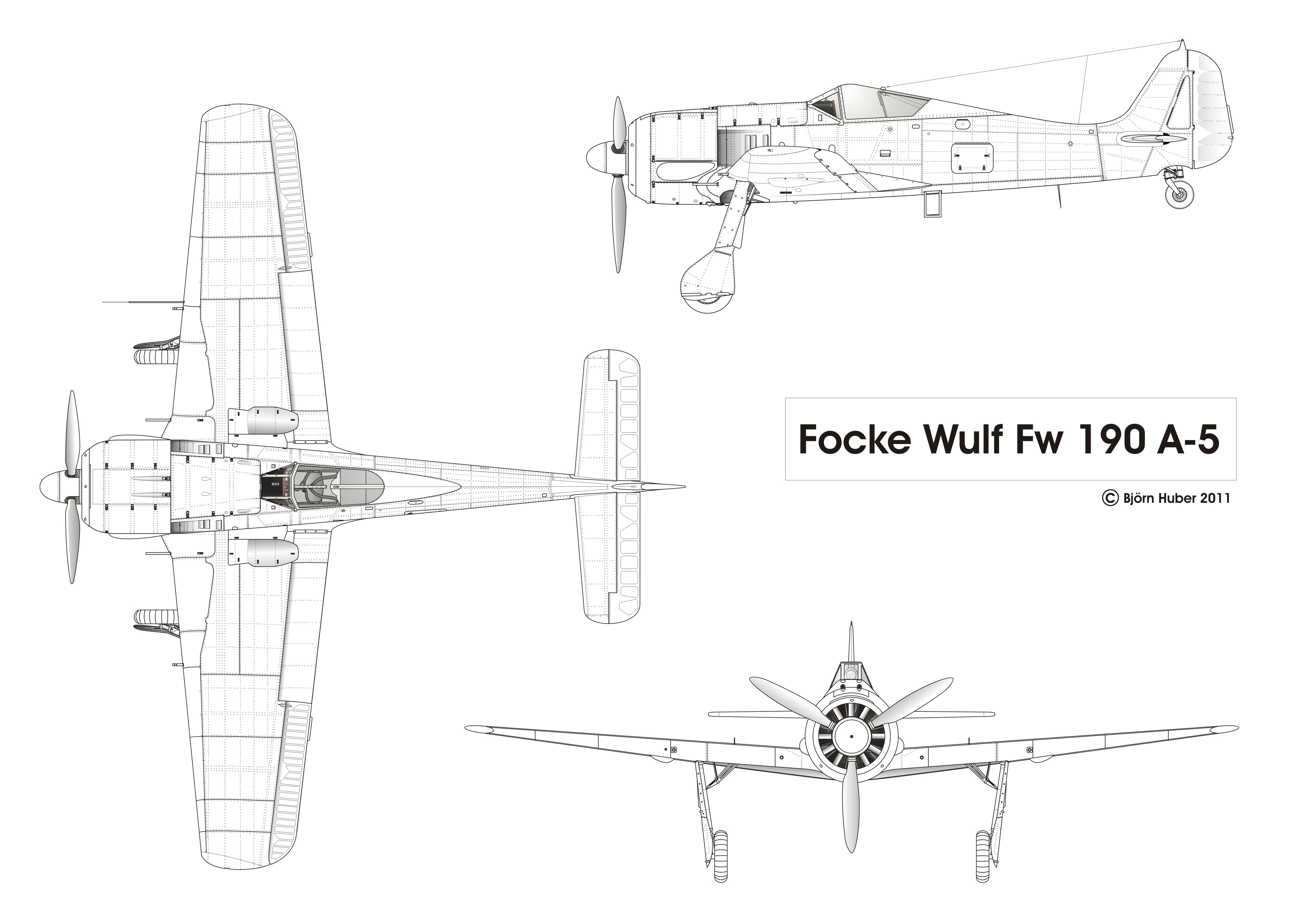 Three side view of a Focke Wulf Fw 190 A-5